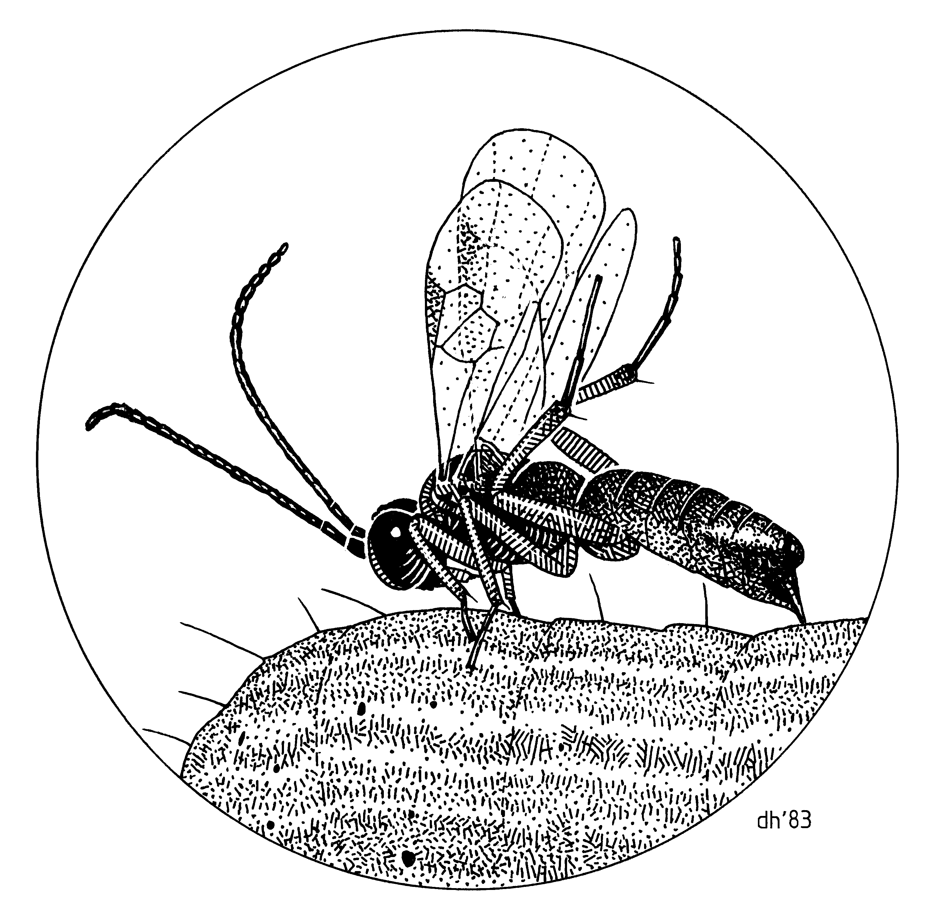 (Hymenoptera: Braconidae) Cotesia ruficrus illustrated by Des Helmore.